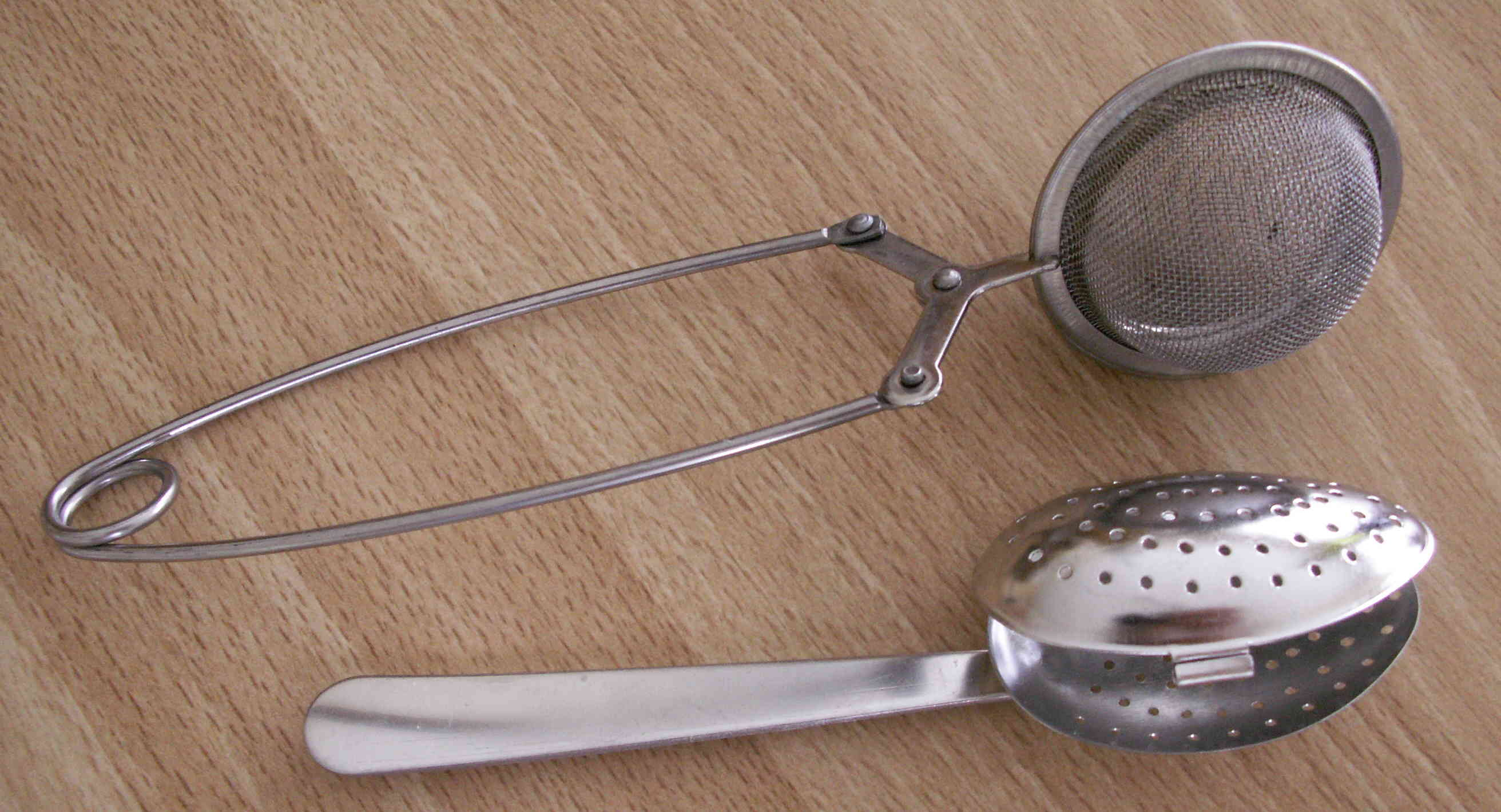 2 Tea infusers; one with a mechanical opening and one with a pressure closing. Note that the second one is way better for use as there is no/less hassle to remove the wet tea after it has been used/steeped.